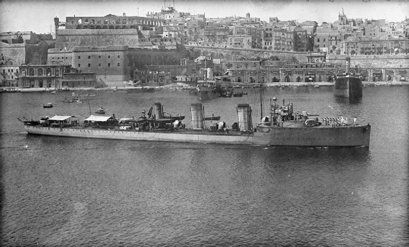 Photograph of British Beagle class destroyer HMS Basilisk in Valletta harbour, Malta.